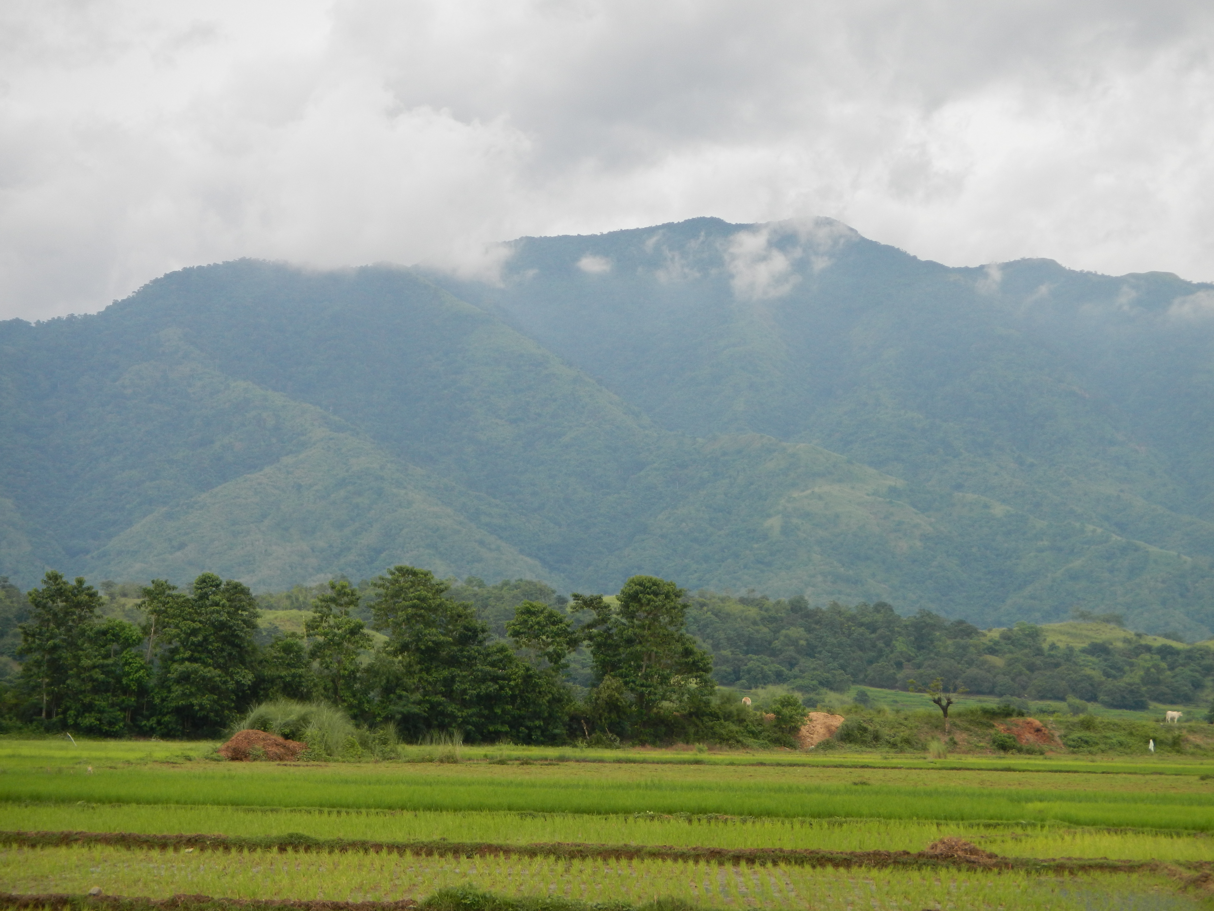 UploadWizard photos of Scenery, greens, blue mountains -- Barangay Calapugan Natpang, Barangay San Miguel, Natividad, Natividad, Pangasinan [1] The Christian Spiritists in the Philippines, Sitio Cadanglaan Village, to Viray-Depalo River Control Project, Barangay San Maximo, Natividad, Natividad, Pangasinan [2] and - San Quintin, Pangasinan Website (2444 [3] is a third class municipality in the province of Pangasinan, Philippines. According to the 2010 census, it has a population of 32,626 people.[4] [5] Area: 115.90 km² Coordinates: 15°59'28"N 120°49'9"E ZIP Code: 2444 [6] This place is situated in Pangasinan, Region 1, Philippines, its geographical coordinates are 15° 58' 38" North, 120° 49' 20" East and its original name (with diacritics) is San Quintin - Dipalo Nature's Park and Picnic Grove -- & Natividad, Pangasinan [7]